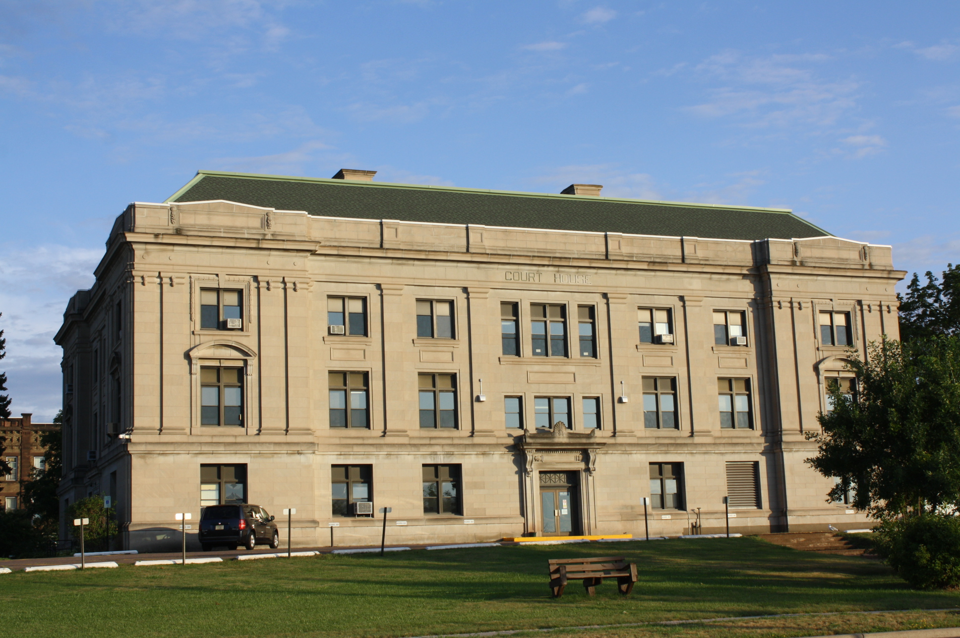 The Ashland County Courthouse, listed on the National Register of Historic Places.